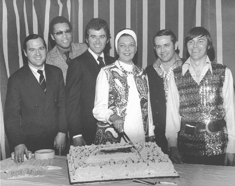 Cake cutting celebration for the opening of Record Plant Los Angeles on December 4, 1969. Pictured: Tom Butler (Record Plant East Coast lawyer), Tom Wilson (RP client and partner, retained Frank Zappa and Bob Dylan and produced them, first black A&R person for Columbia Records), Ben Johnson (investor), Ancky Johnson (investor), Chris Stone (co-founder), Gary Kellgren (co-founder).